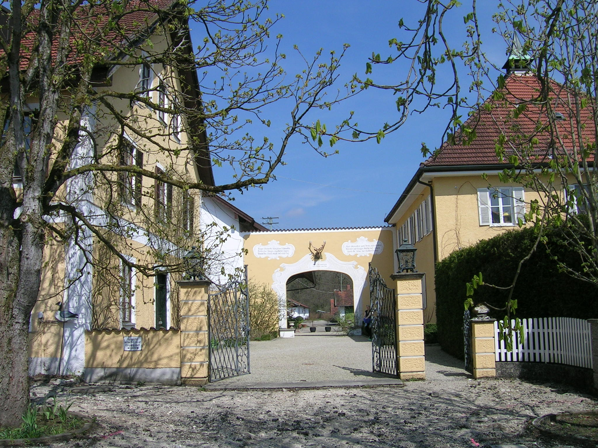 Castle Niederaltenburg (Feldkirchen-Westerham)